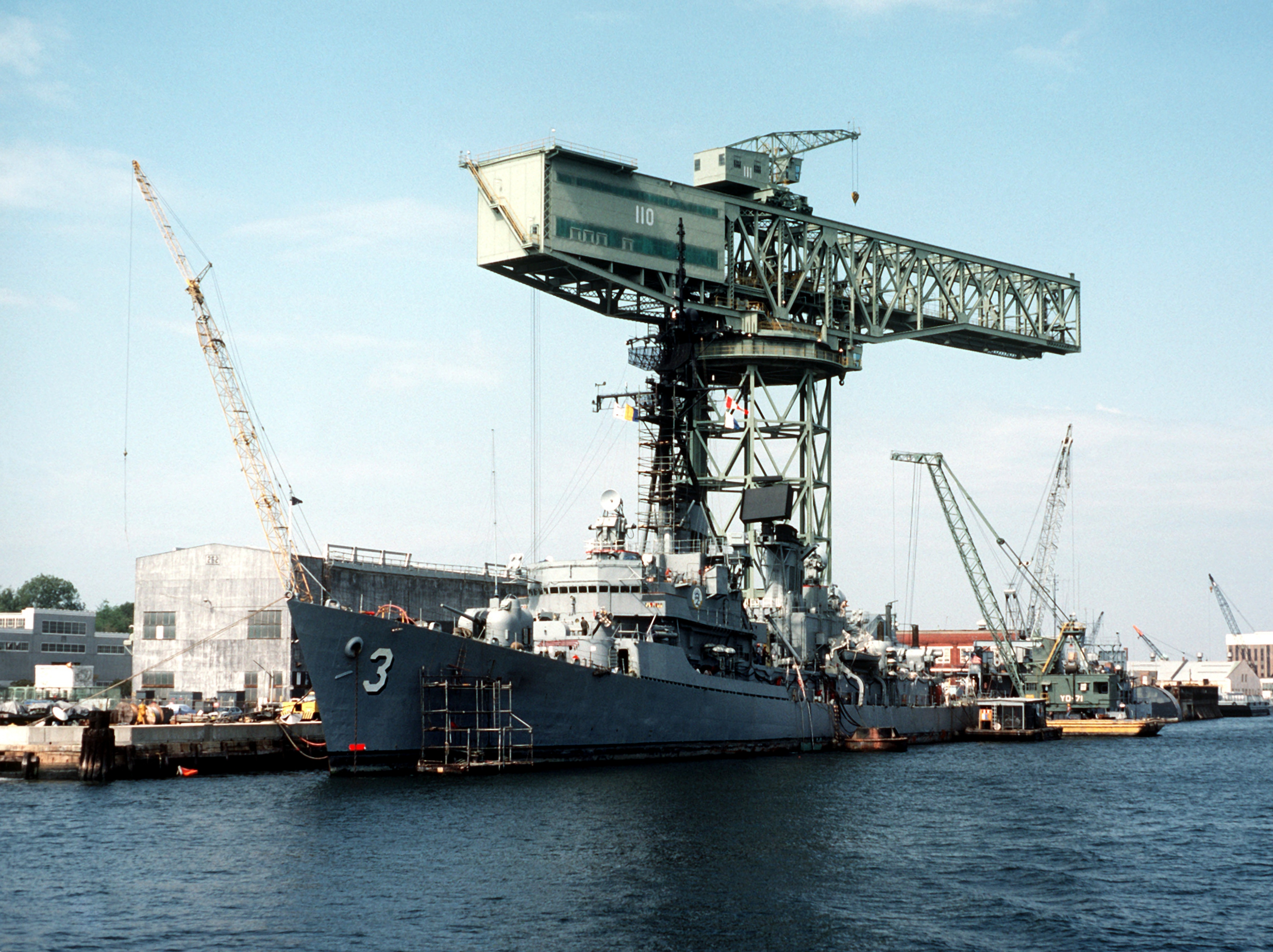 The U.S. Navy guided missile destroyer USS John King (DDG-3) undergoing an overhaul at the Norfolk Naval Shipyard, Virginia (USA). A 350-ton hammerhead crane is visible in the background.